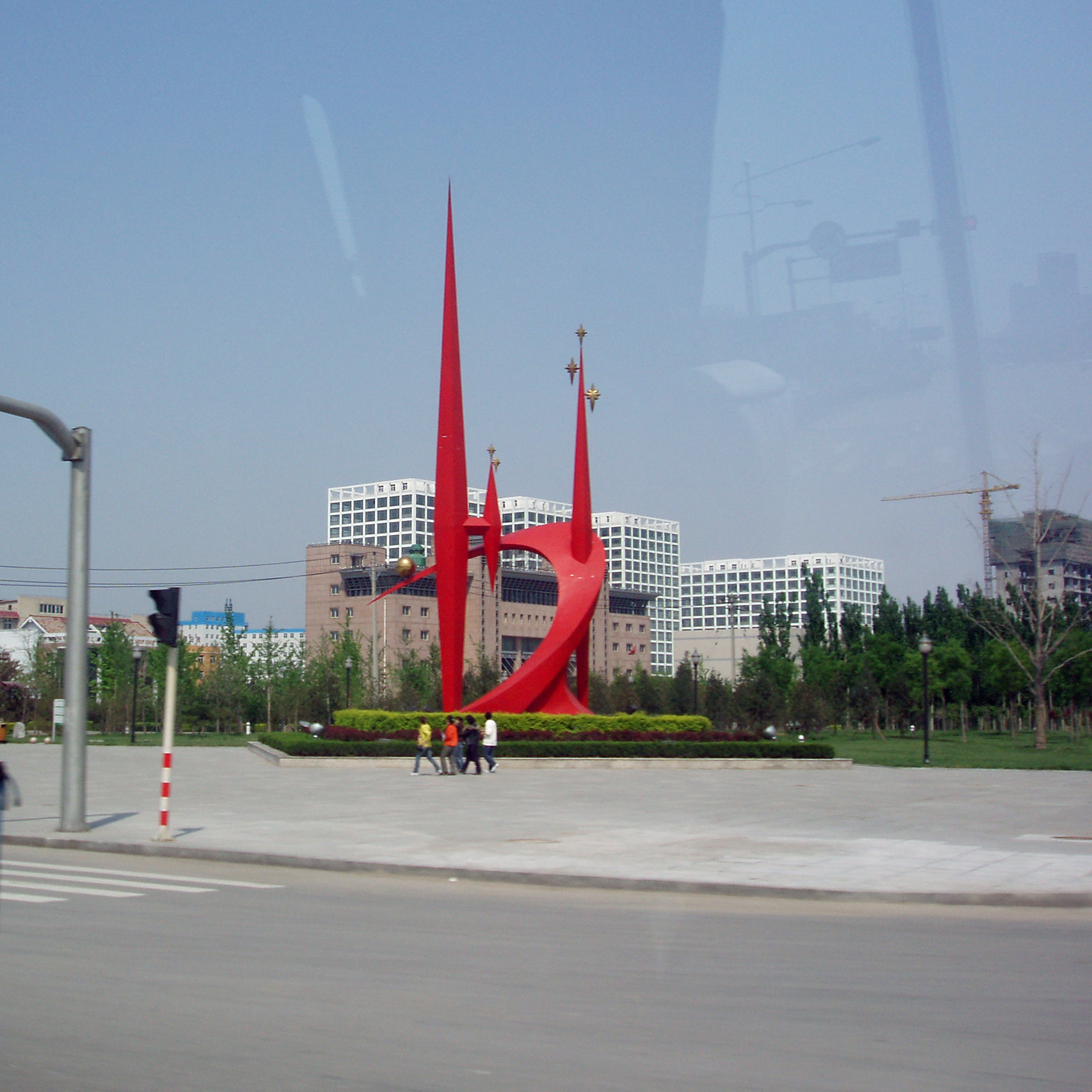 Handan City, Hebei, China